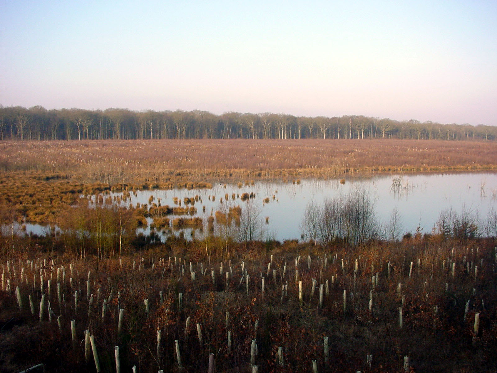 Artificial forestation, in the Forest of Rihoult-Clairmarais, near Saint-Omer, North of France.